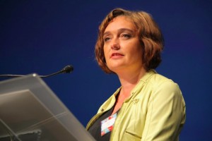 Ólöf Nordal varaformaður Sjálfstæðisflokksins